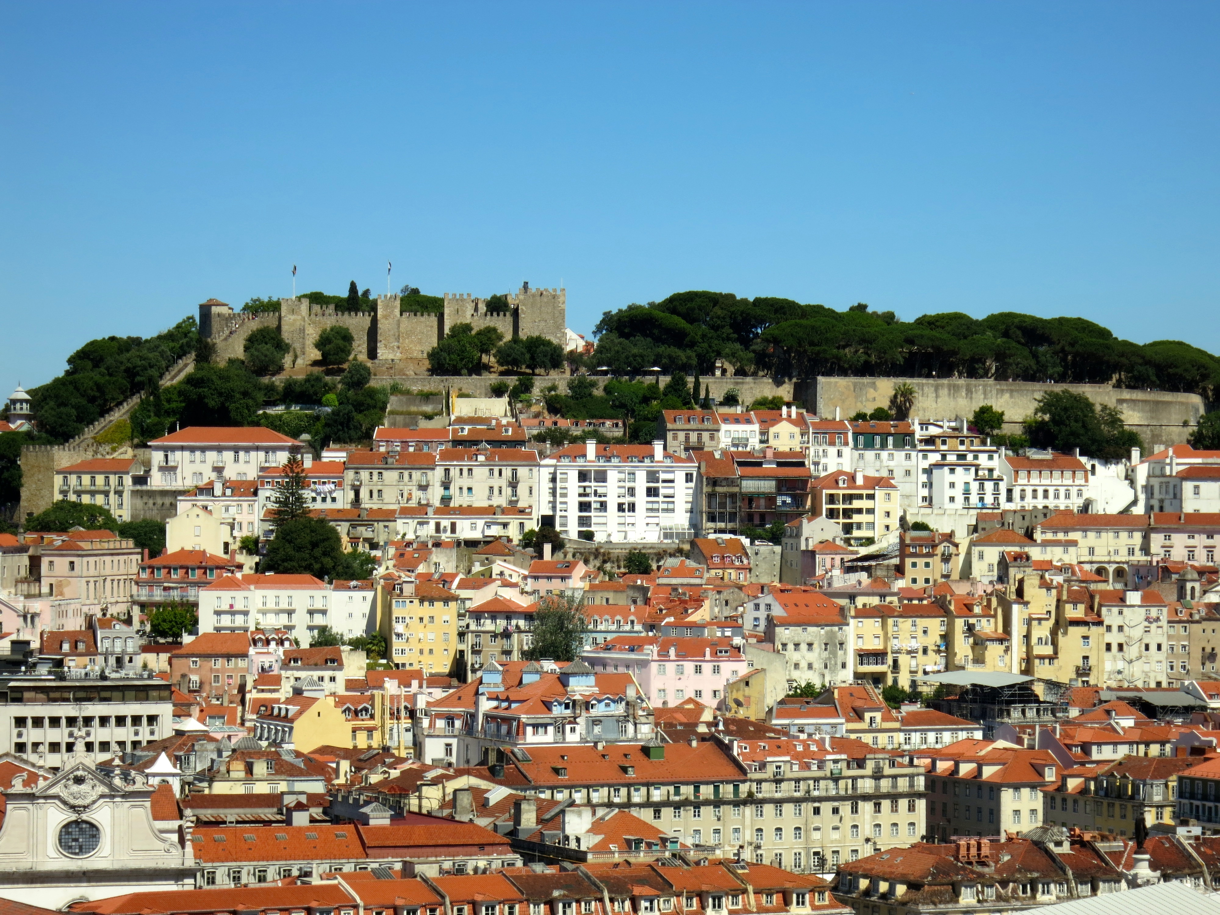 View from the miradouro.